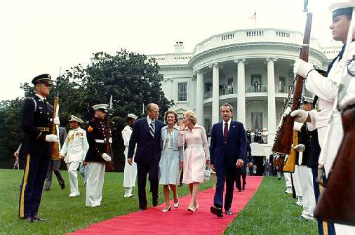 Gerald and Betty Ford escort Richard and Pat Nixon from the White House to a waiting helicopter on August 9, 1974, following Nixon's resignation from the presidency.